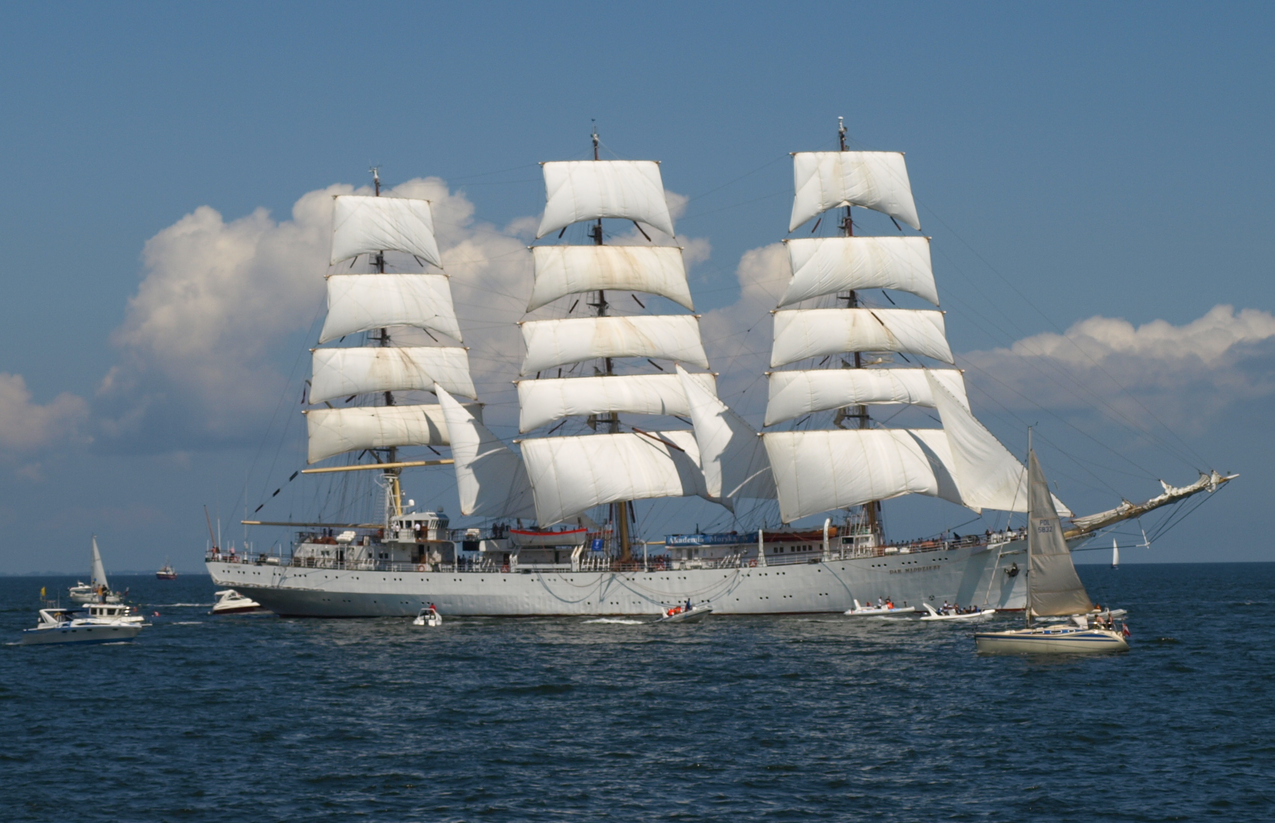 Dar Młodzieży, a three-masted fully rigged sail training ship, Tall Ships' Races, Gdynia, 2009